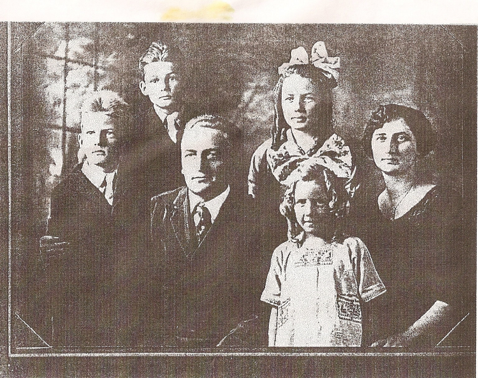 Judge Struckmeyer with his parents, Justice Fred "F.C.", Sr. and Inez, brother James, Sr., and sisters Esther Louise "Fritzie" and Martha.